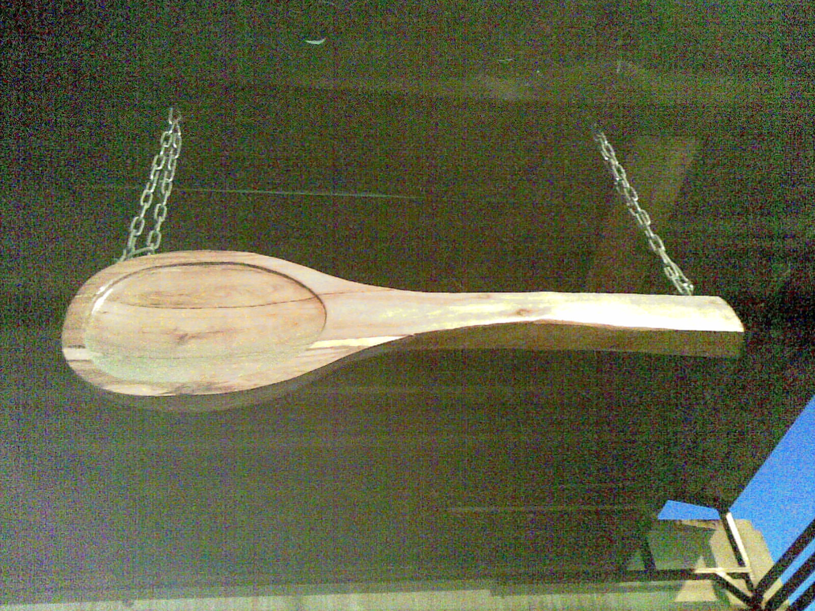 Posted via email from @djackmanson Just had okonomiyaki (egg pancake), tempura avocado and onigiri (fresh rice cakes: 1 chicken and veg, 1 prawn, 1 cheese and curry (guessing that last one is what you call "fusion")) ...